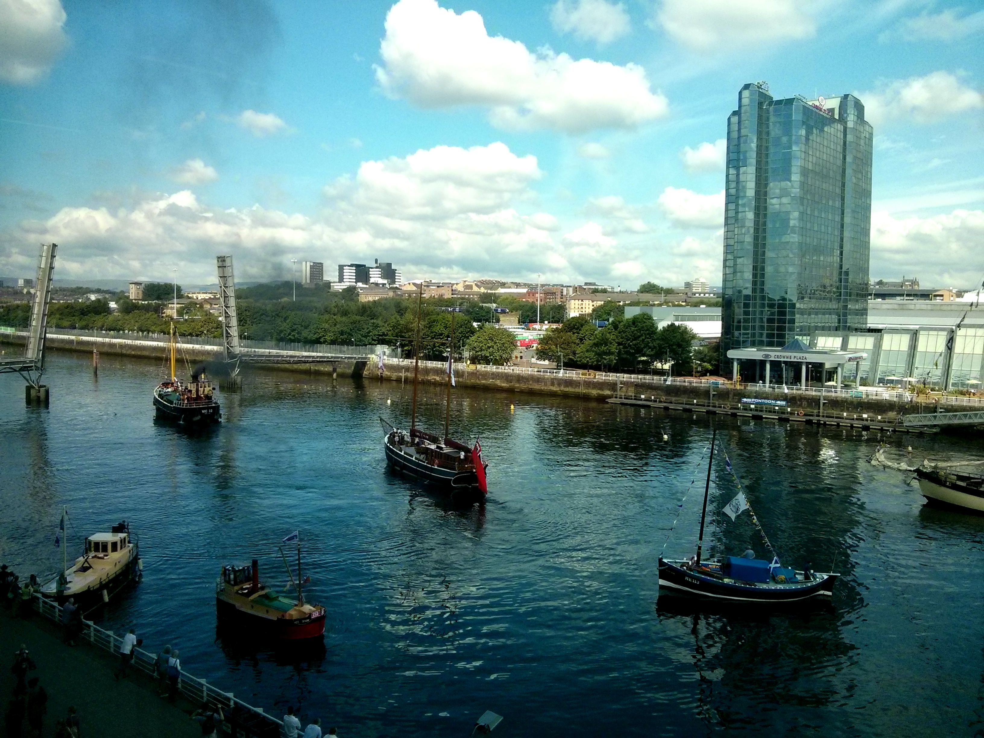 The final few boats departing Pacific Quay in Glasgow after the Glasgow 2014 flotilla.